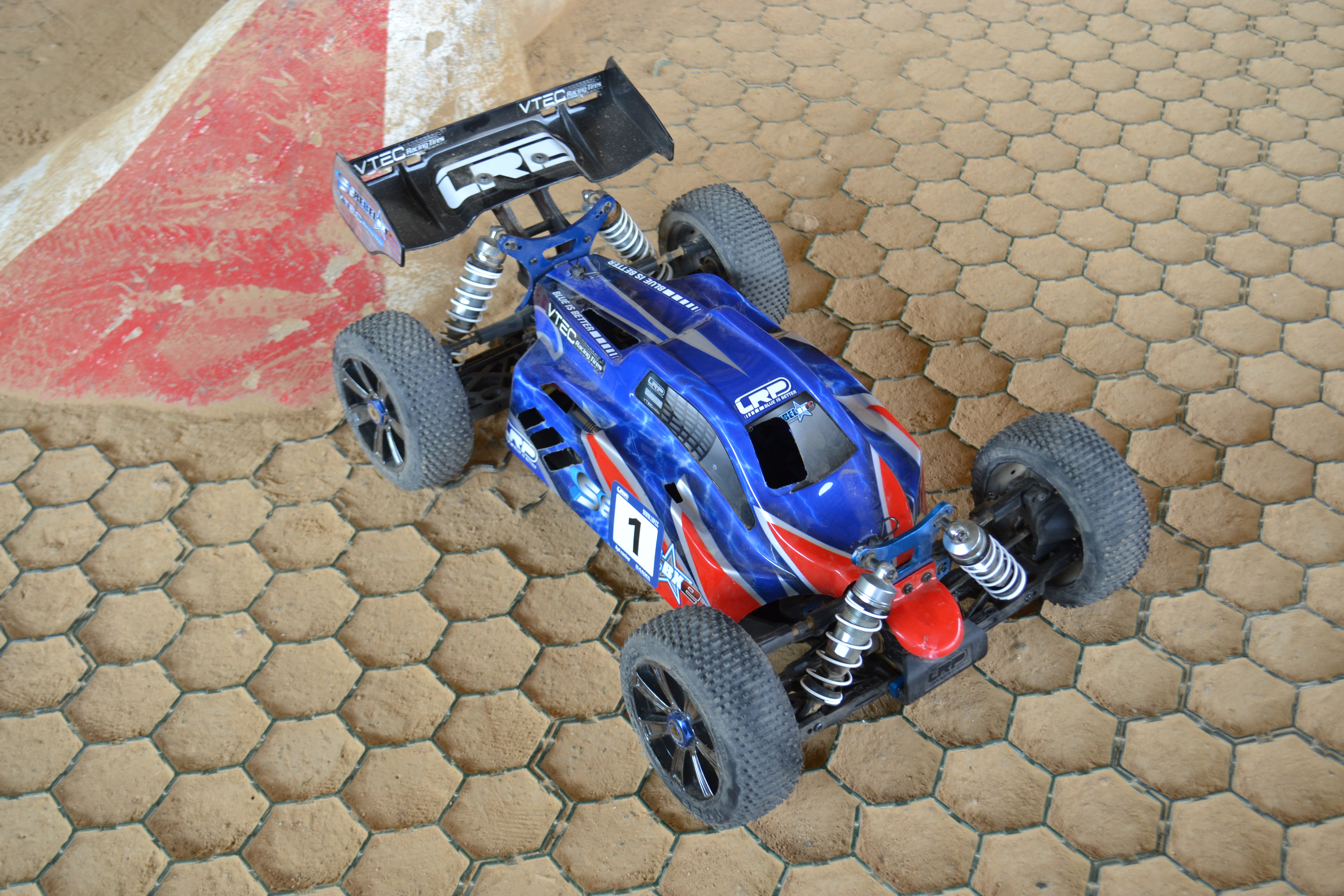 LRP-Offroad-Challenge Buggy 1:8